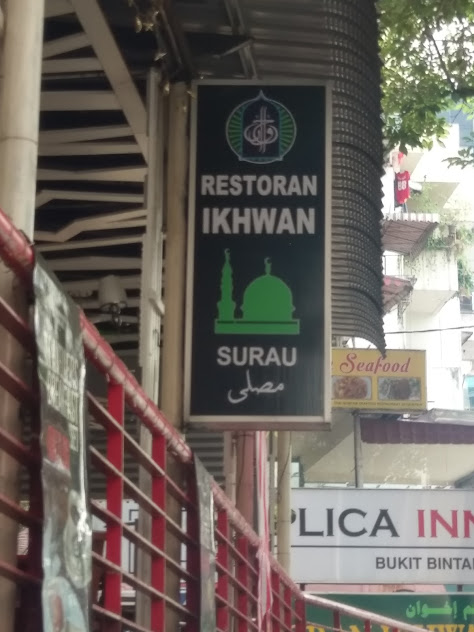 A Surau (Muslim prayer room) sign at a restaurant in Bukit Bintang (Kuala Lumpur), with an Arabic translation at the bottom.